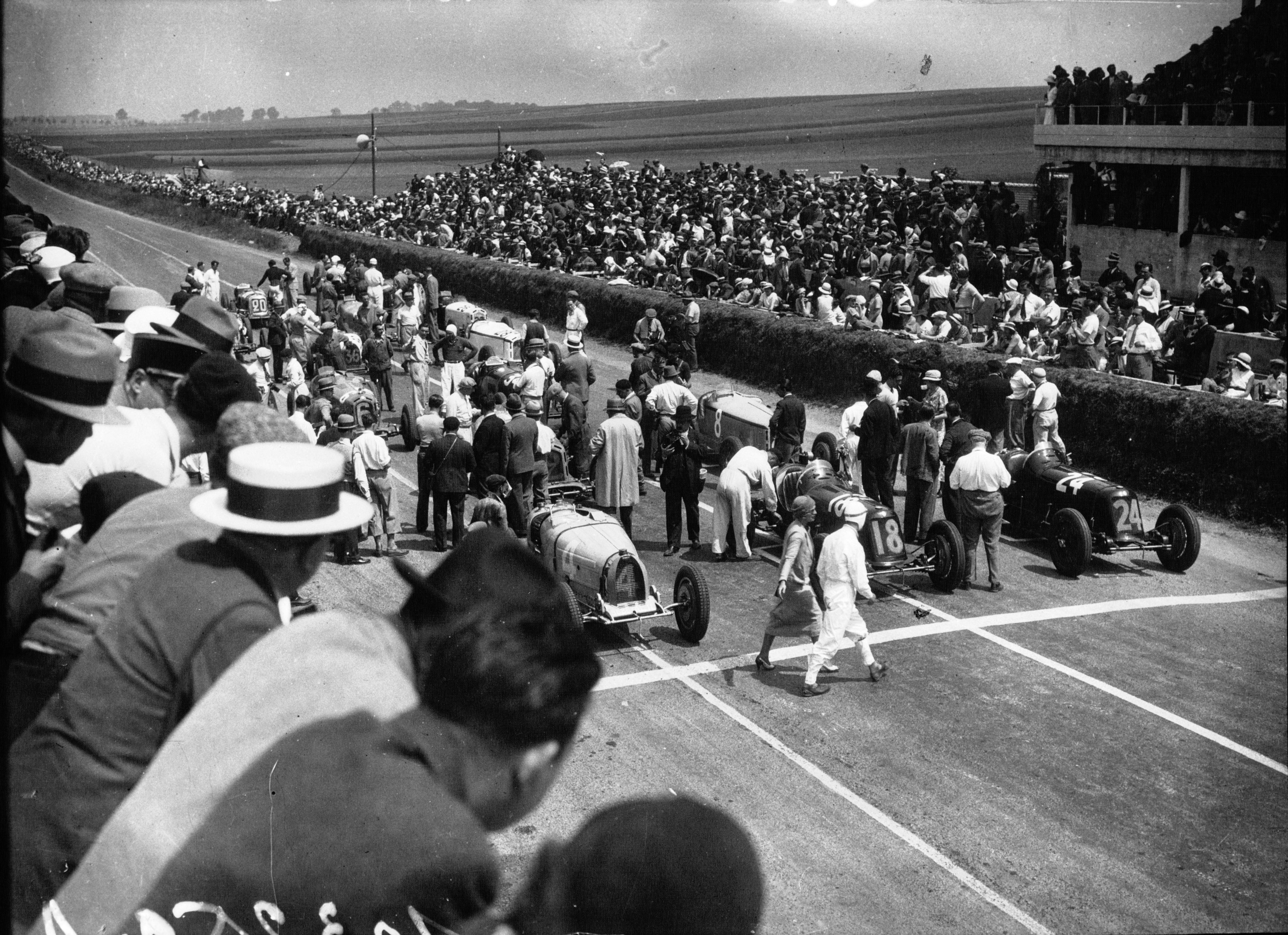 Grid of the 1933 Grand Prix de la Marne